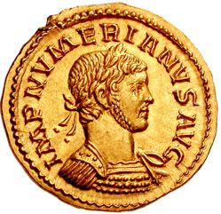 Portrait of Roman emperor Numerian from an aureus